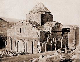 The church Tekor before the 1912 earthquake damage